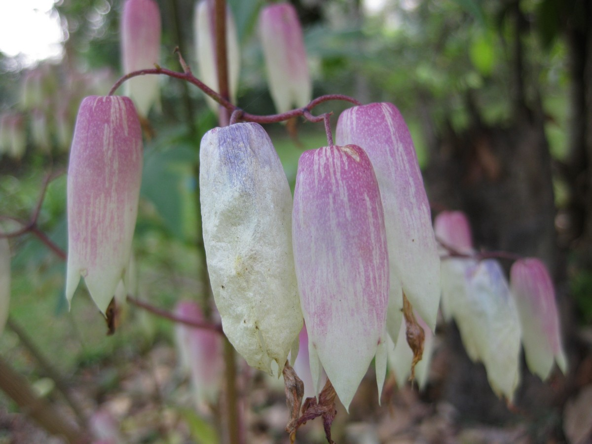 Photographed at the Queen Sirikit Botanic Garden (Chiang Mai Province, Thailand) in March